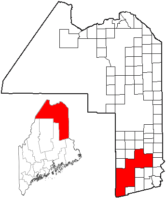 Adapted from U.S. Census Bureau maps (American FactFinder) and Wikipedia's ME county maps by Bumm13.